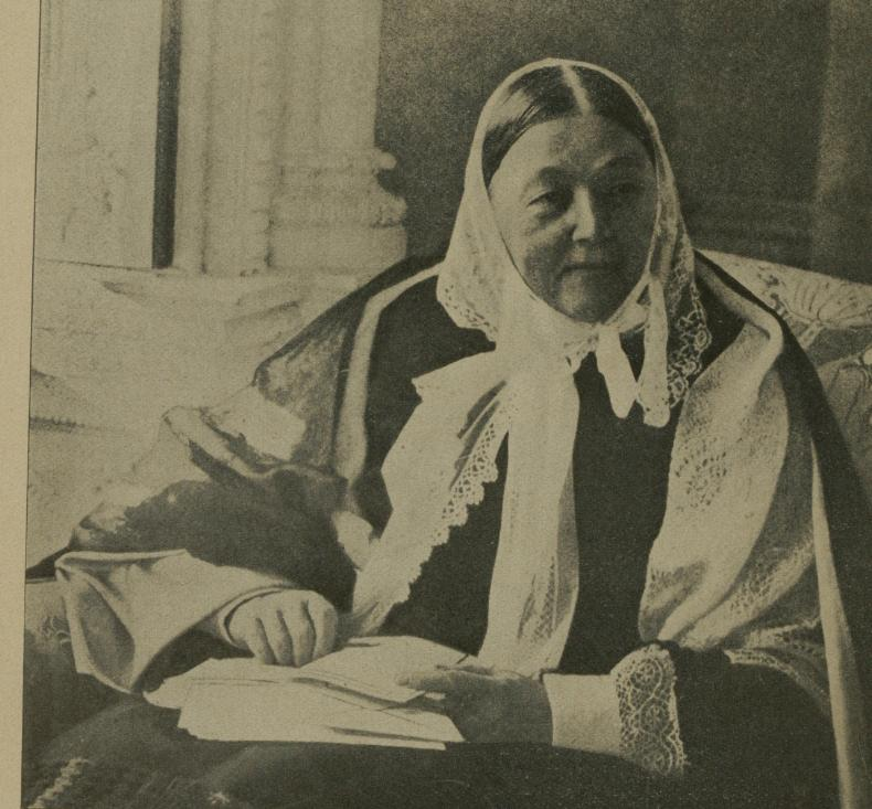 Illustration of Florence Nightingale